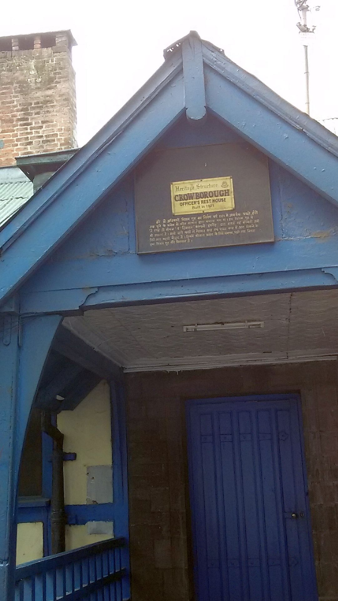 Entrance the Crow Brough Rest House (built in 1921) Shimla,India